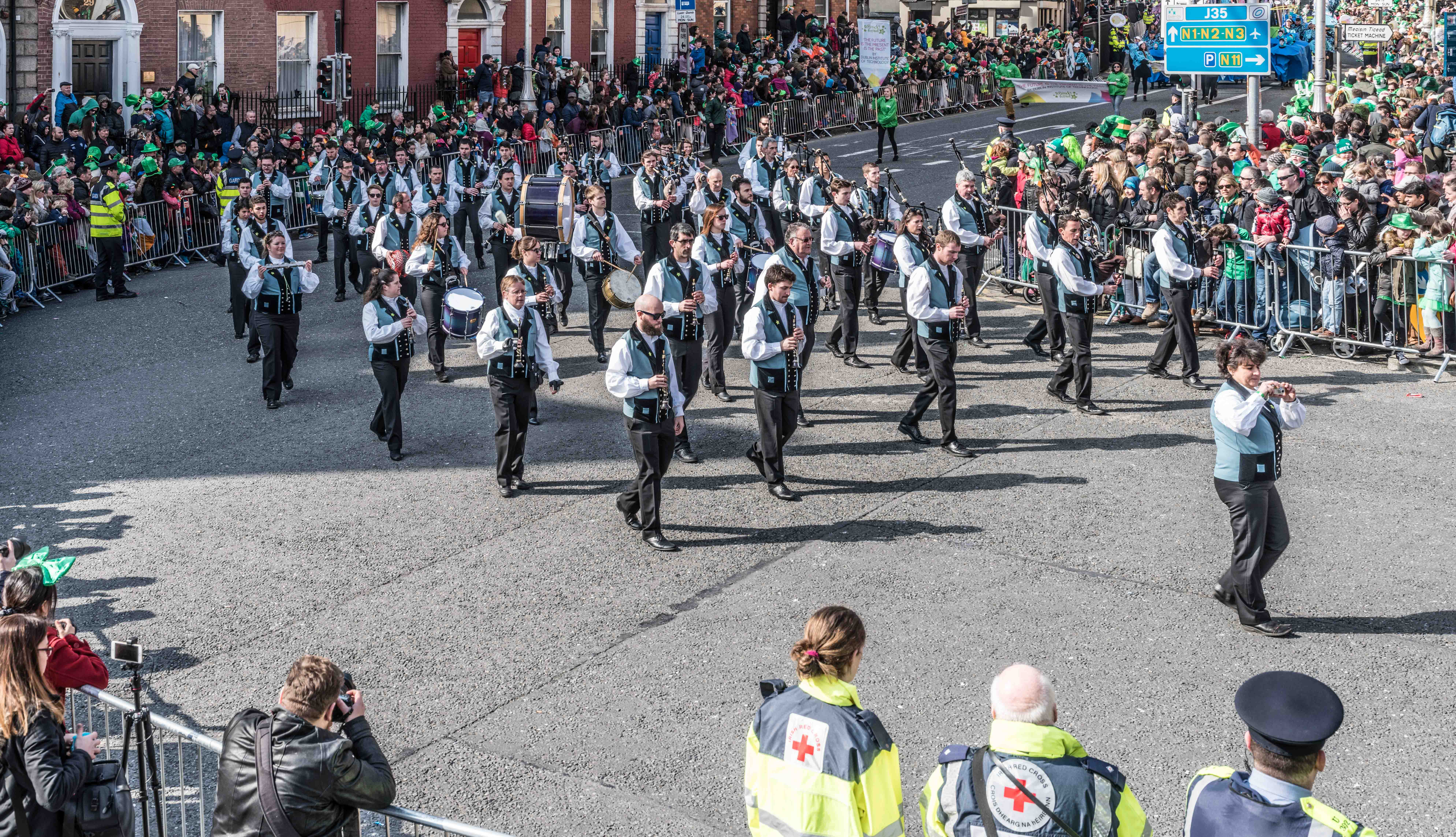 Bagad de Vannes Melinerion Brittany [St. Patrick’s Parade In Dublin